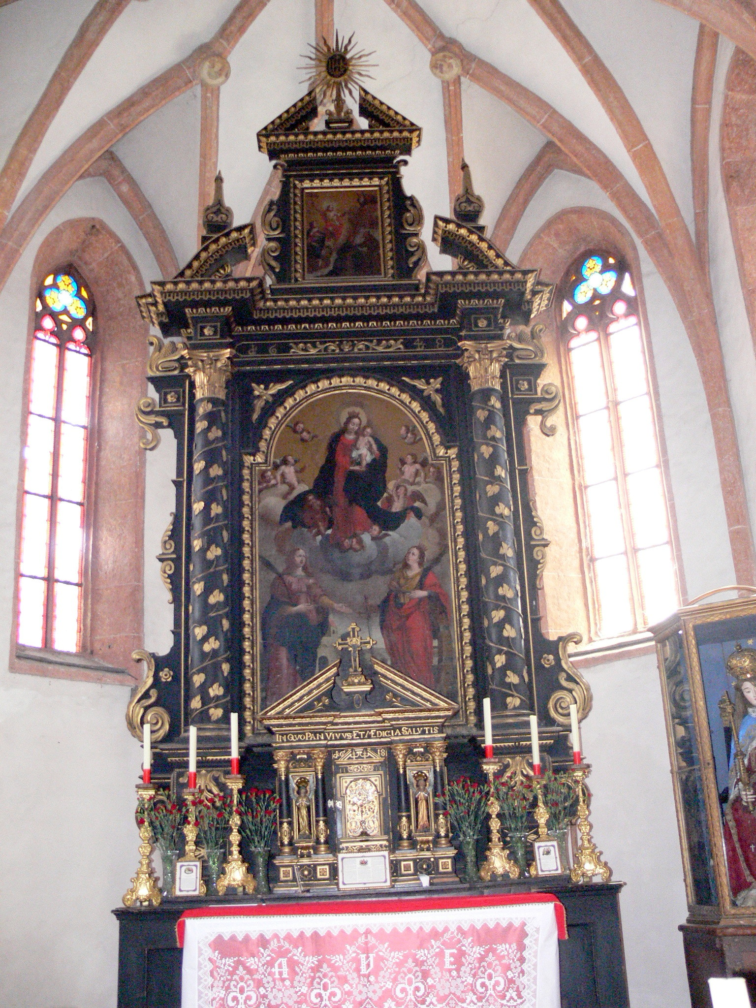 Our Lady´s church in Bischofshofen ( Salzburg ). High altar ( 1648 ).